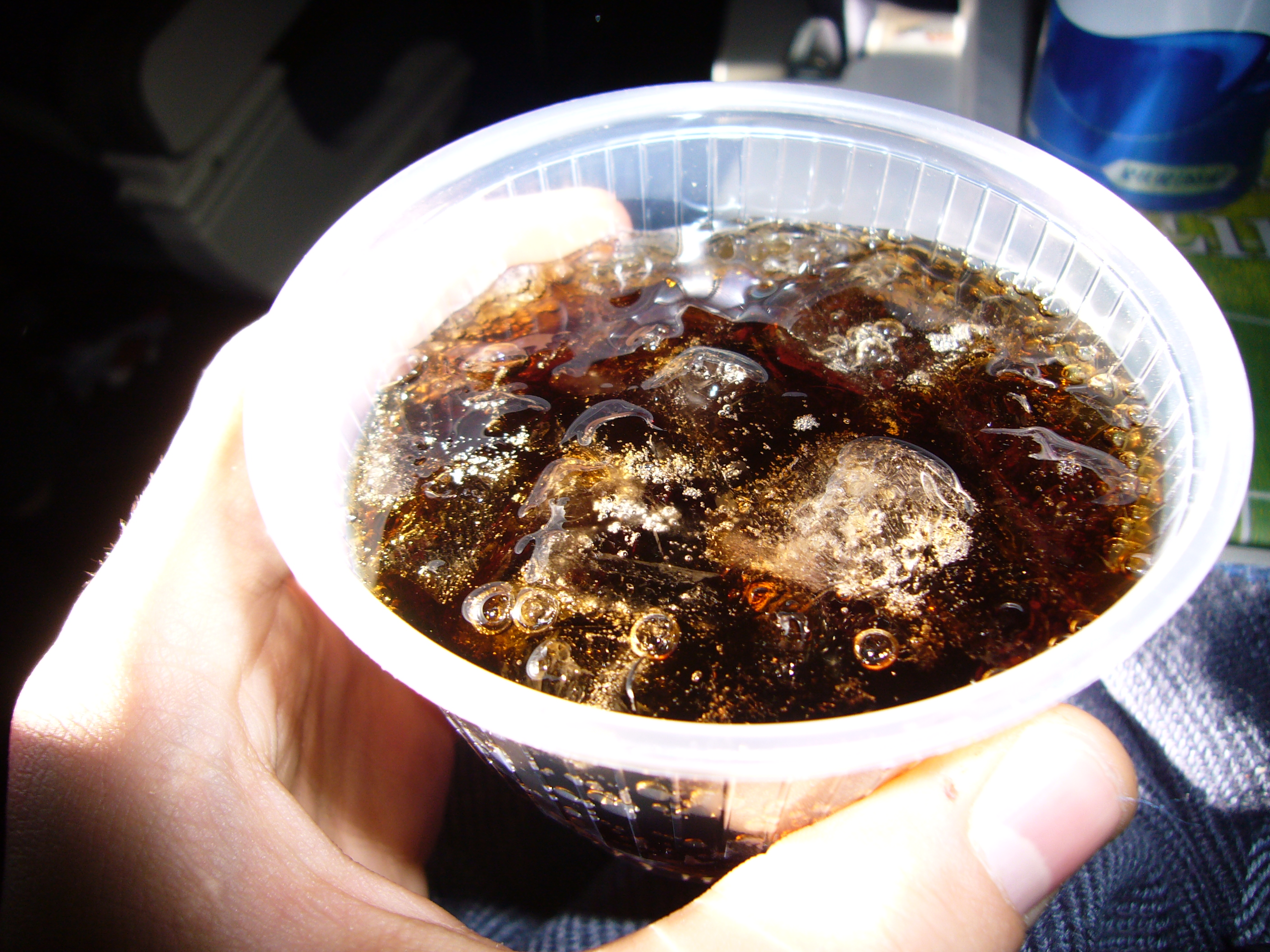 Pepsi in a plastic cup. North-West Airline (NWA)